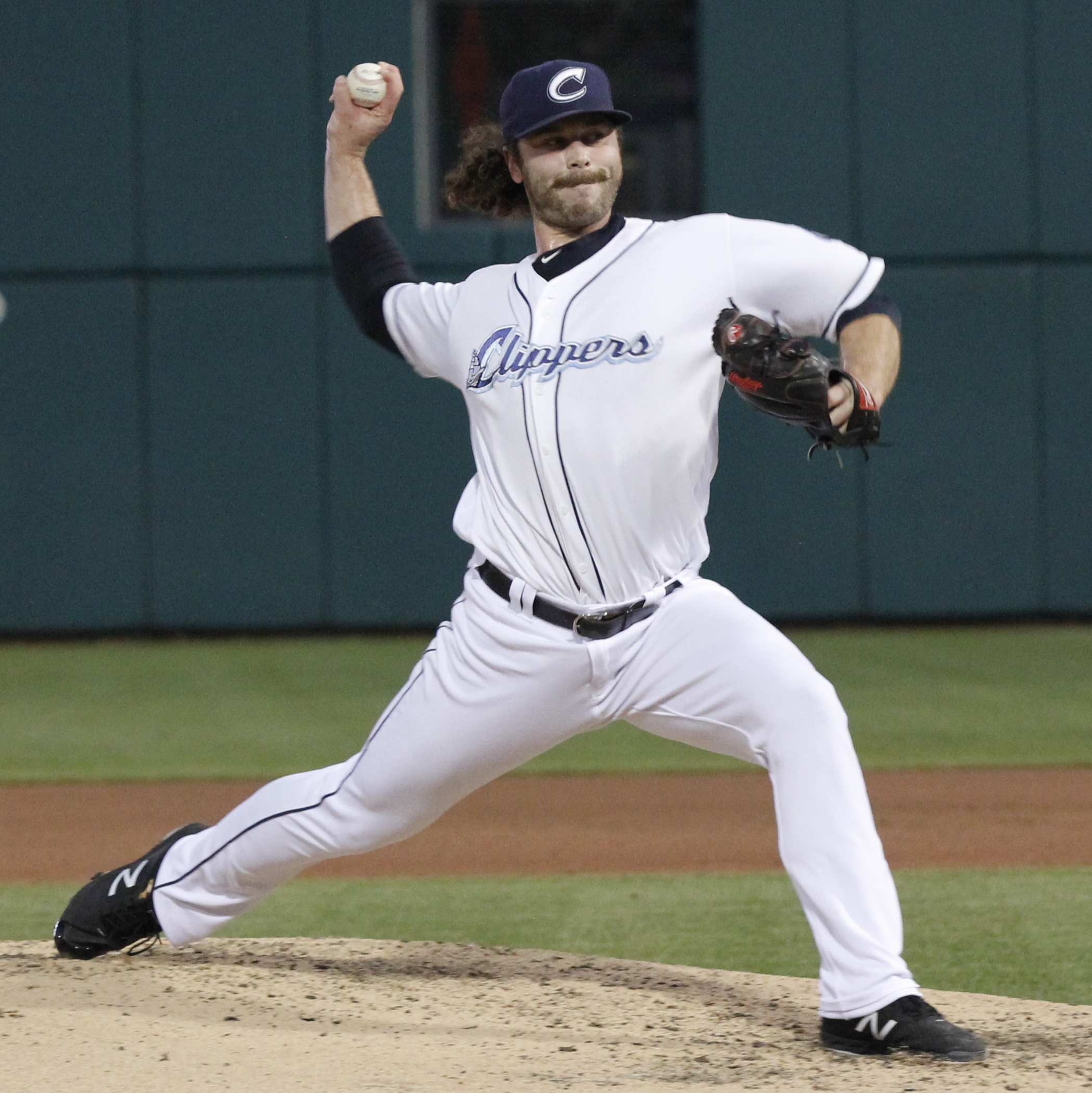 Ben Taylor delivers a pitch for the Columbus Clippers during a 2018 game at Huntington Park in Columbus, Ohio